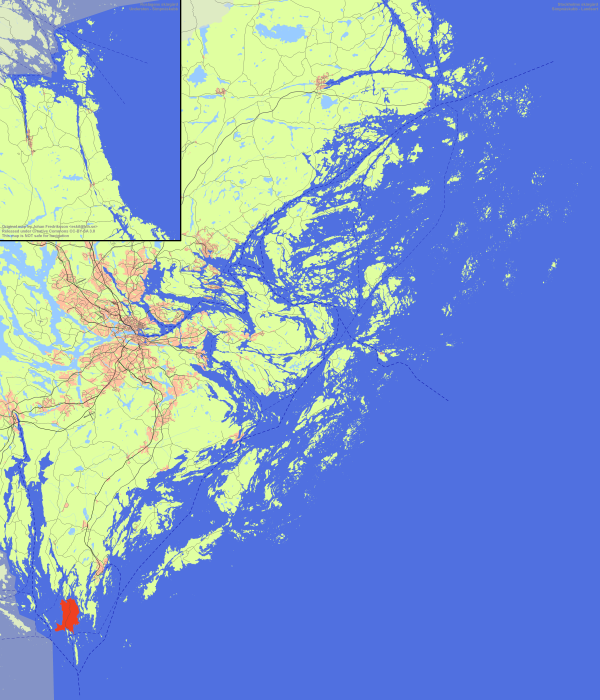 Location of the island Torö